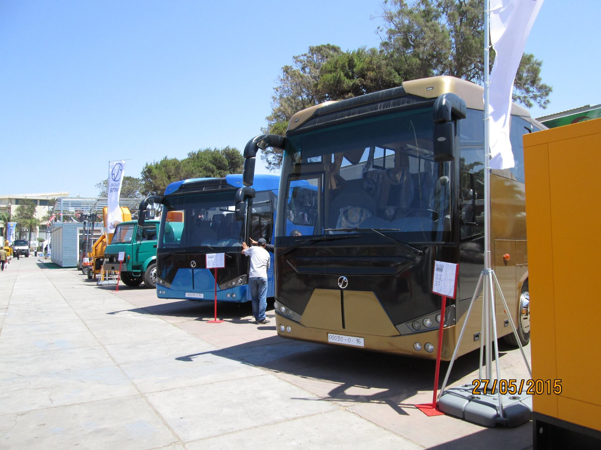 نوميديا و فنك